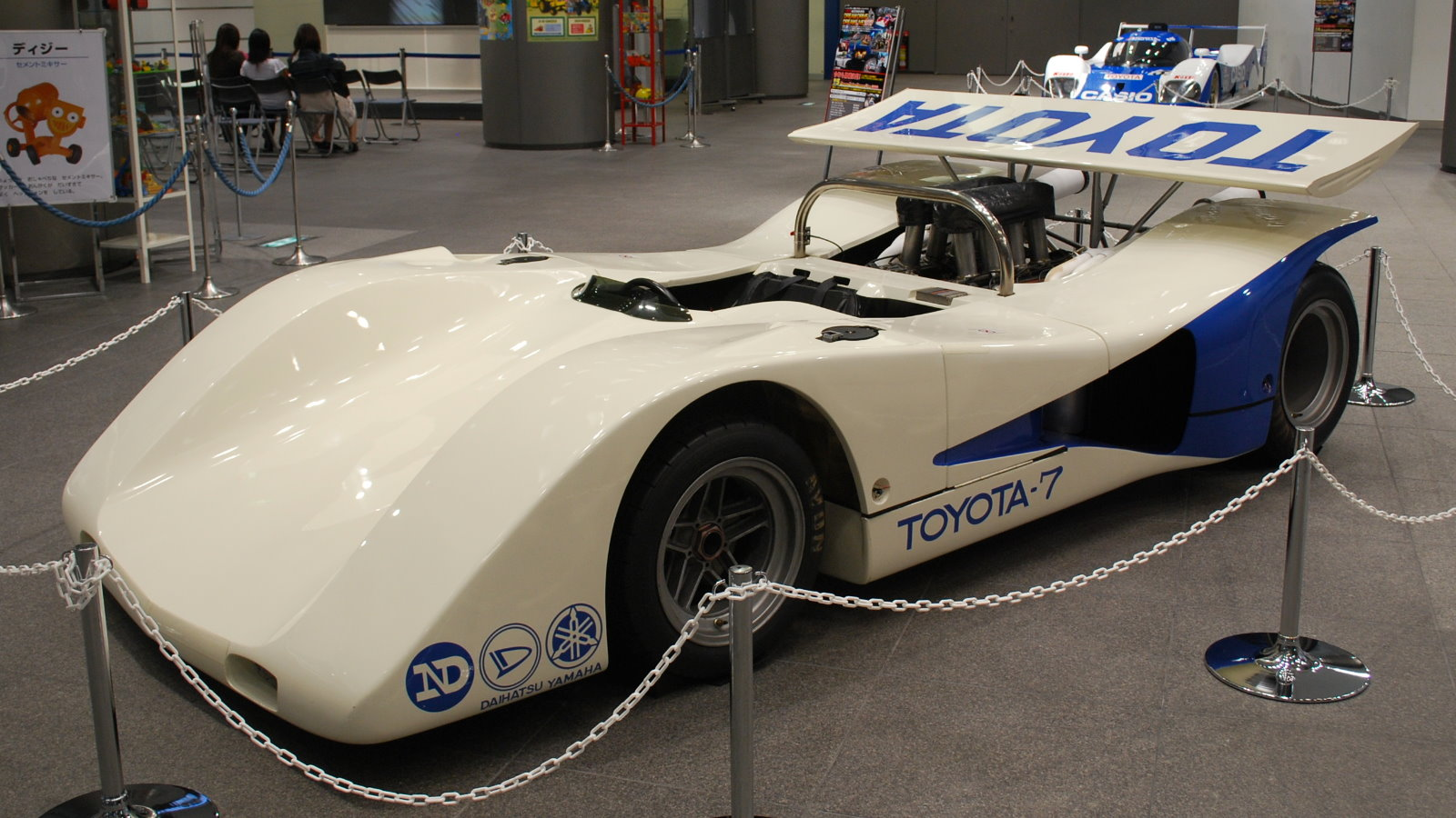 Toyota_7 NA (1970)